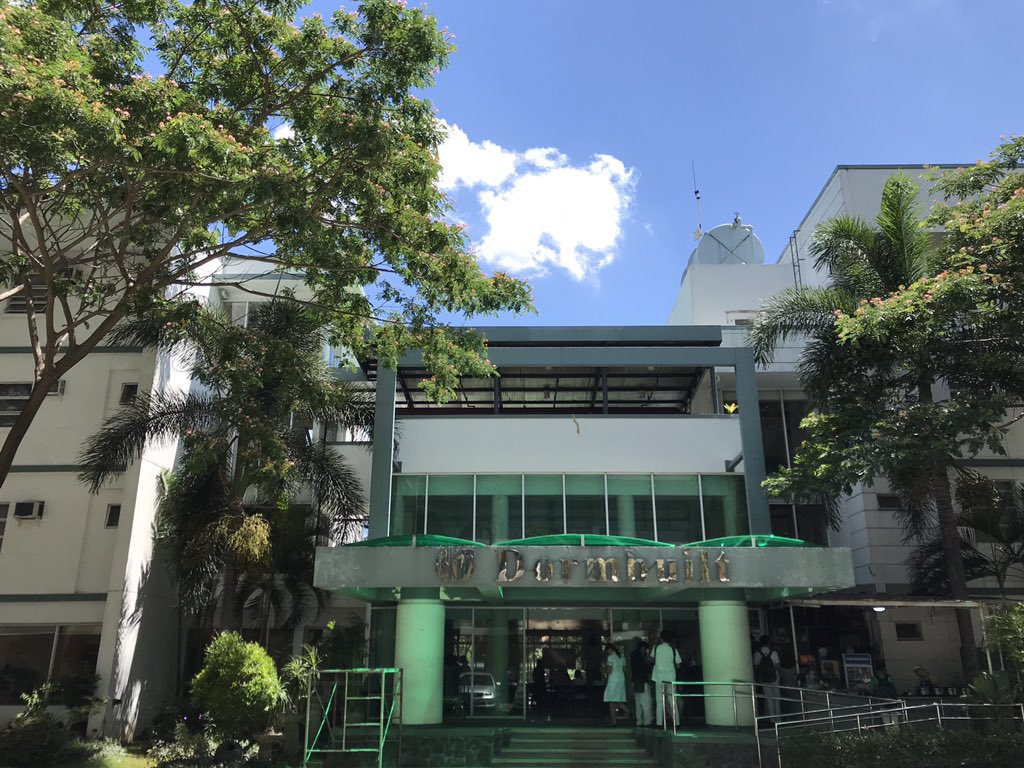 DLSMHSI's in-campus dormitory